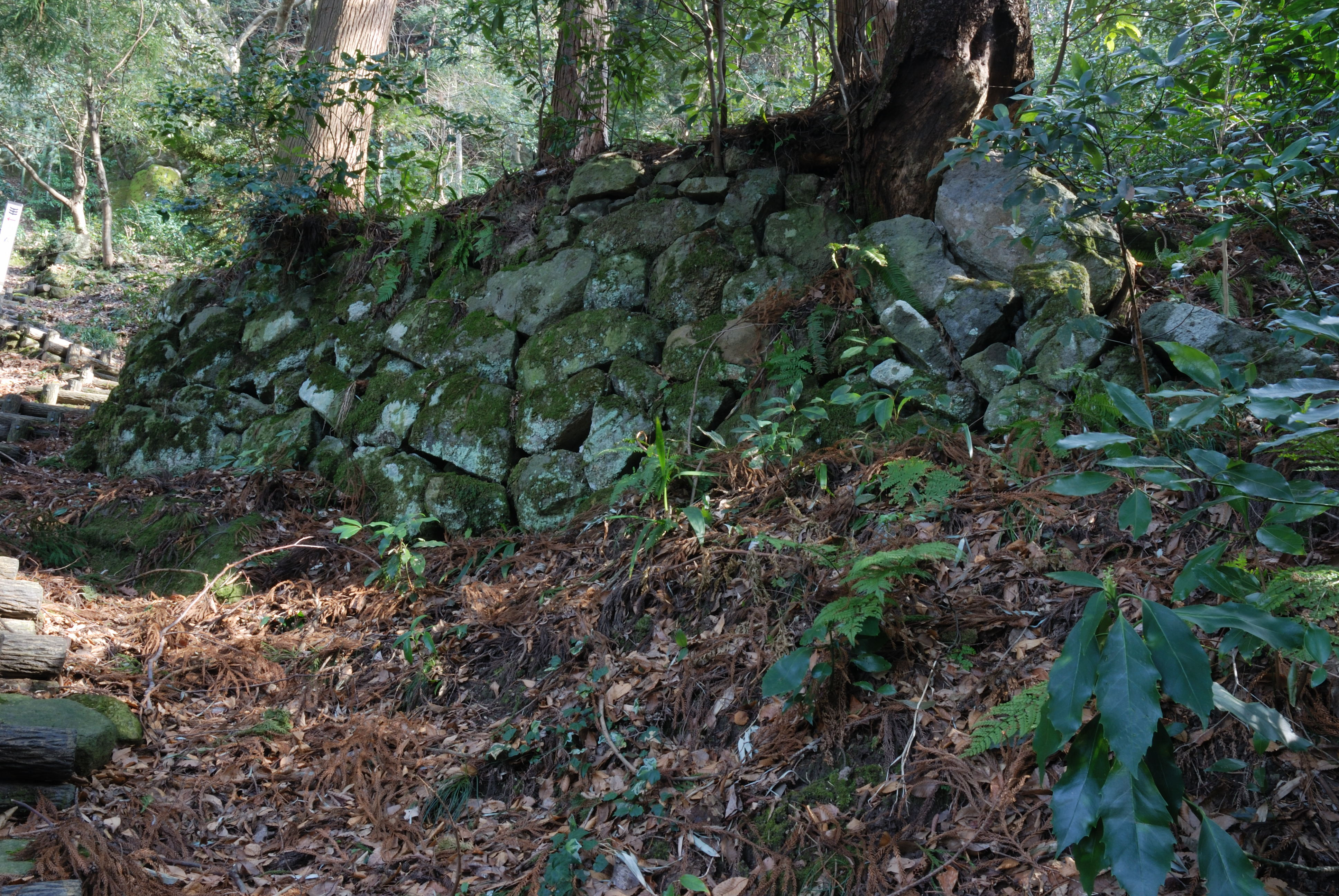 Ueshi castle ishigaki